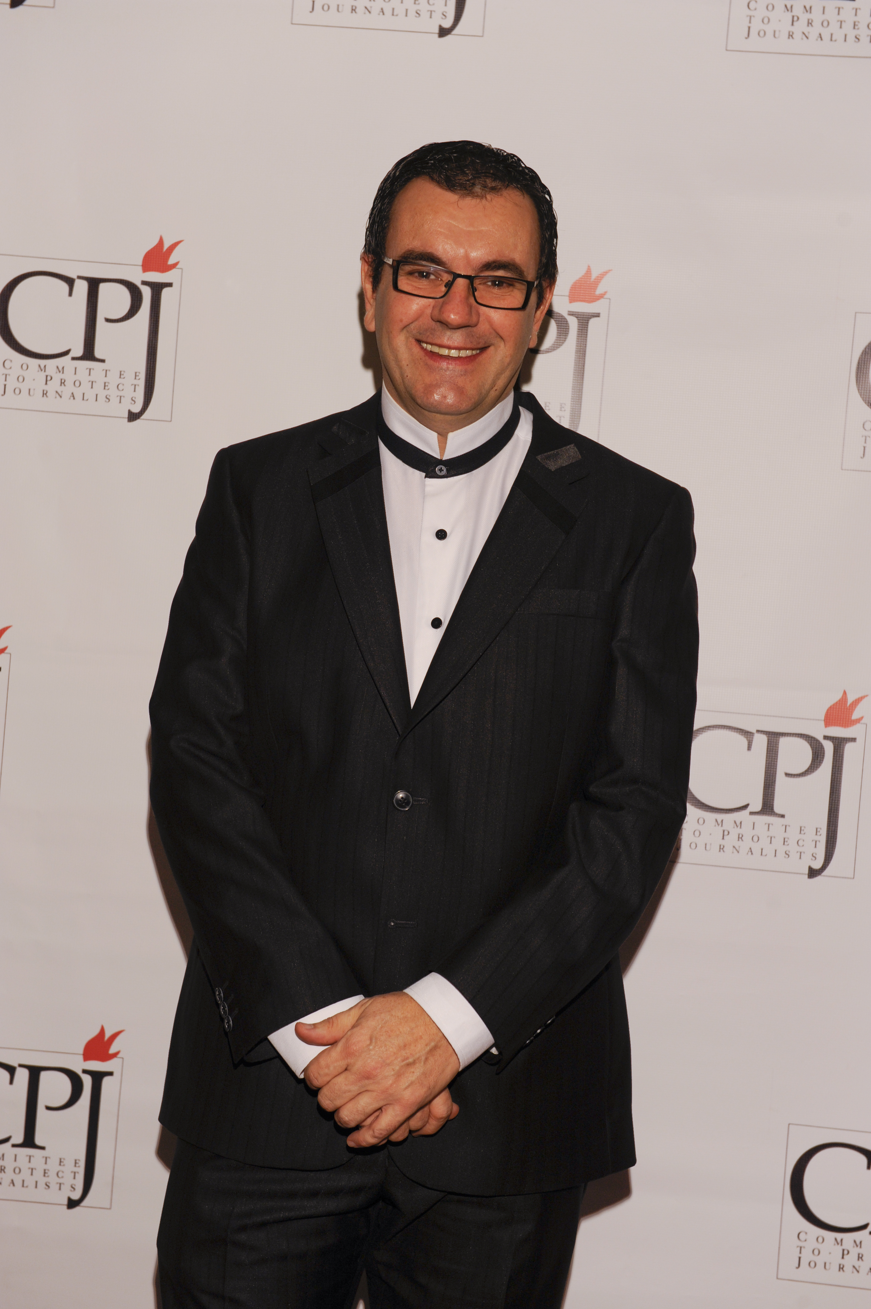 Laureano Marquez, winner of the International Press Freedom Award of the Committee to Protect Journalists